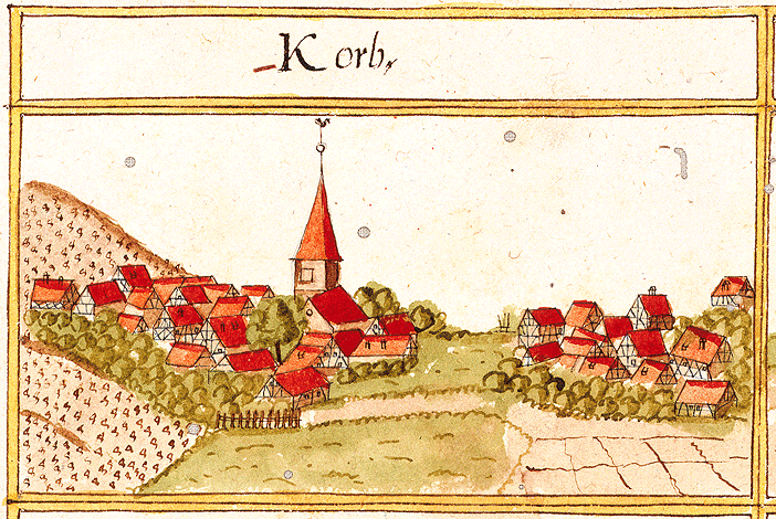 View of Korb from the forest register books created by Andreas Kieser